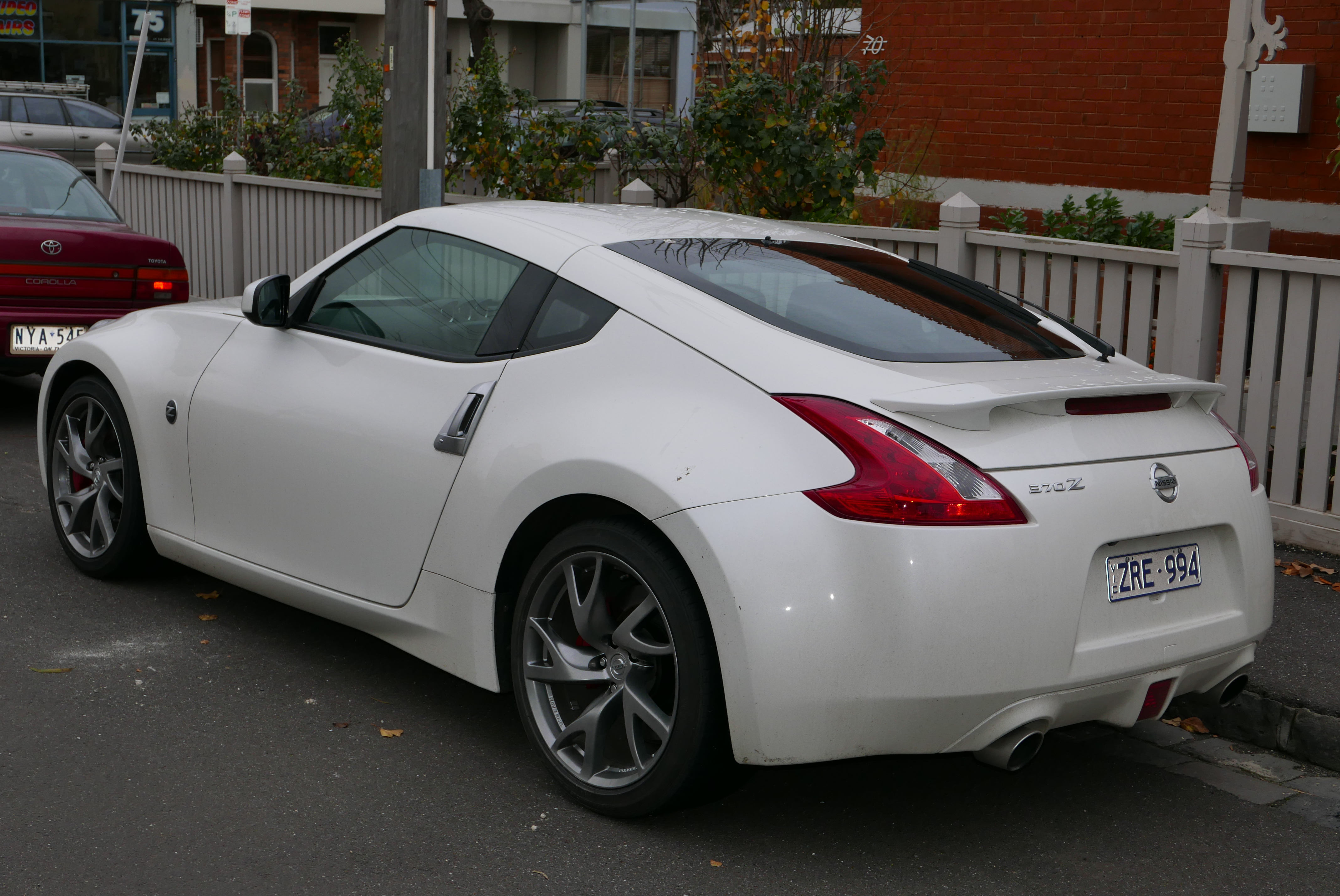 2013 Nissan 370Z (Z34 MY13.5) coupe. Photographed in Fitzroy North, Victoria, Australia. Vehicle registration enquiry results Jurisdiction Victoria Registration ZRE994 Chassis code JN1GAAZ34A0340120 Engine code VQ37455856A Compliance date 2013-06 Year of manufacture 2013